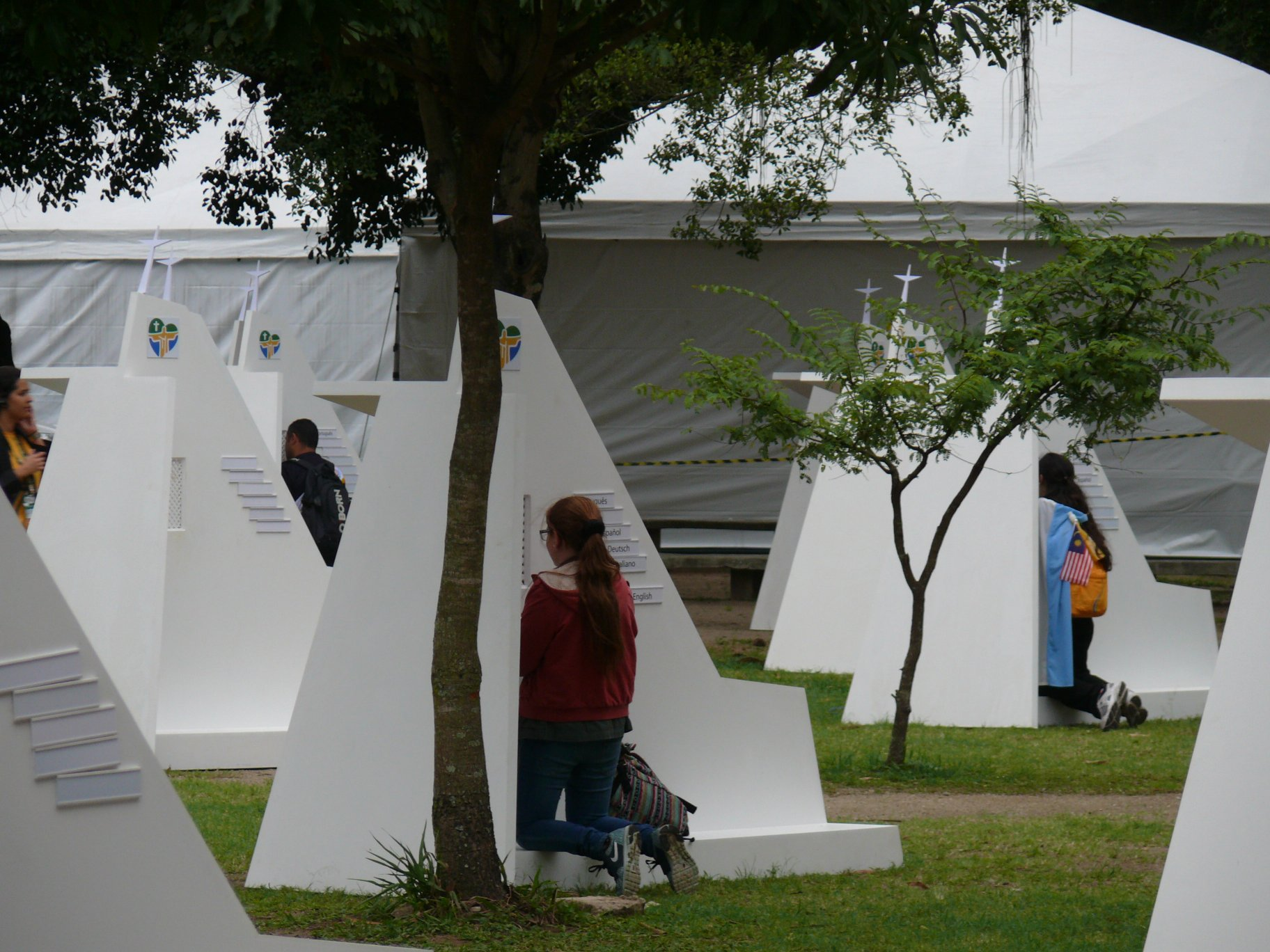 The 2013 World Youth Day in Rio de Janeiro (Brésil).